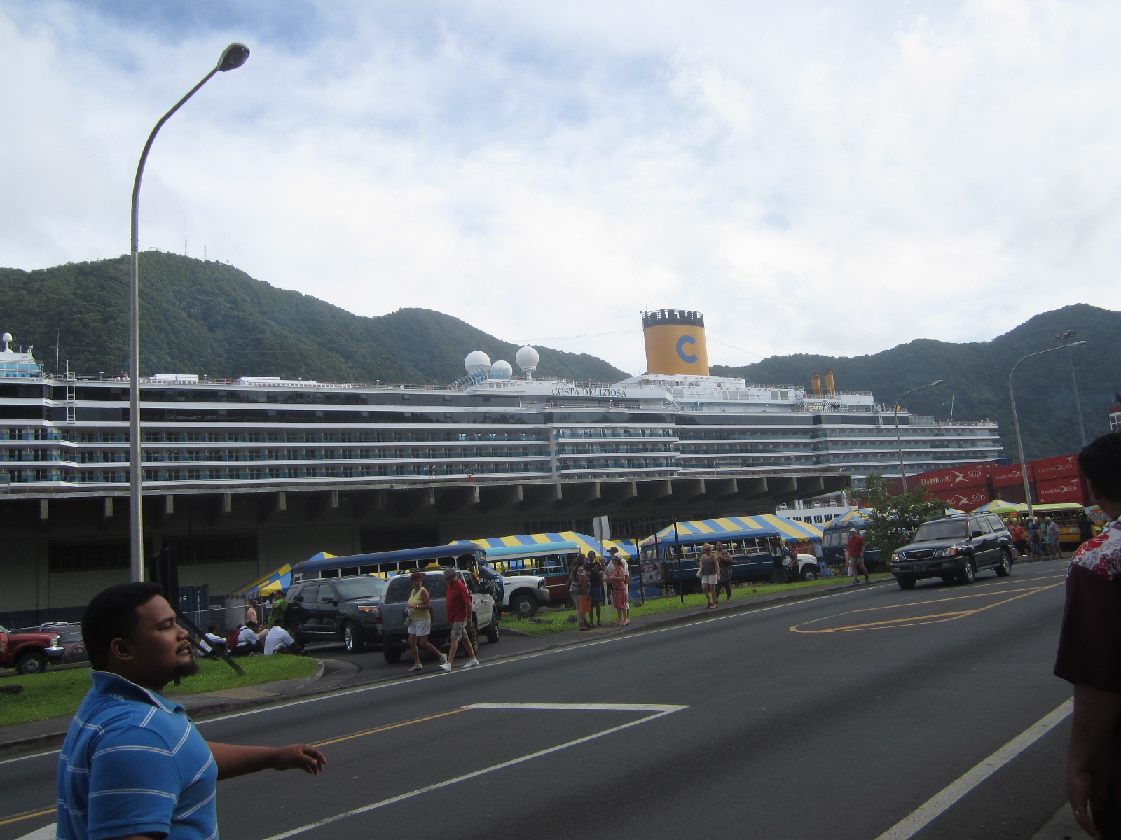 A visiting cruise ship